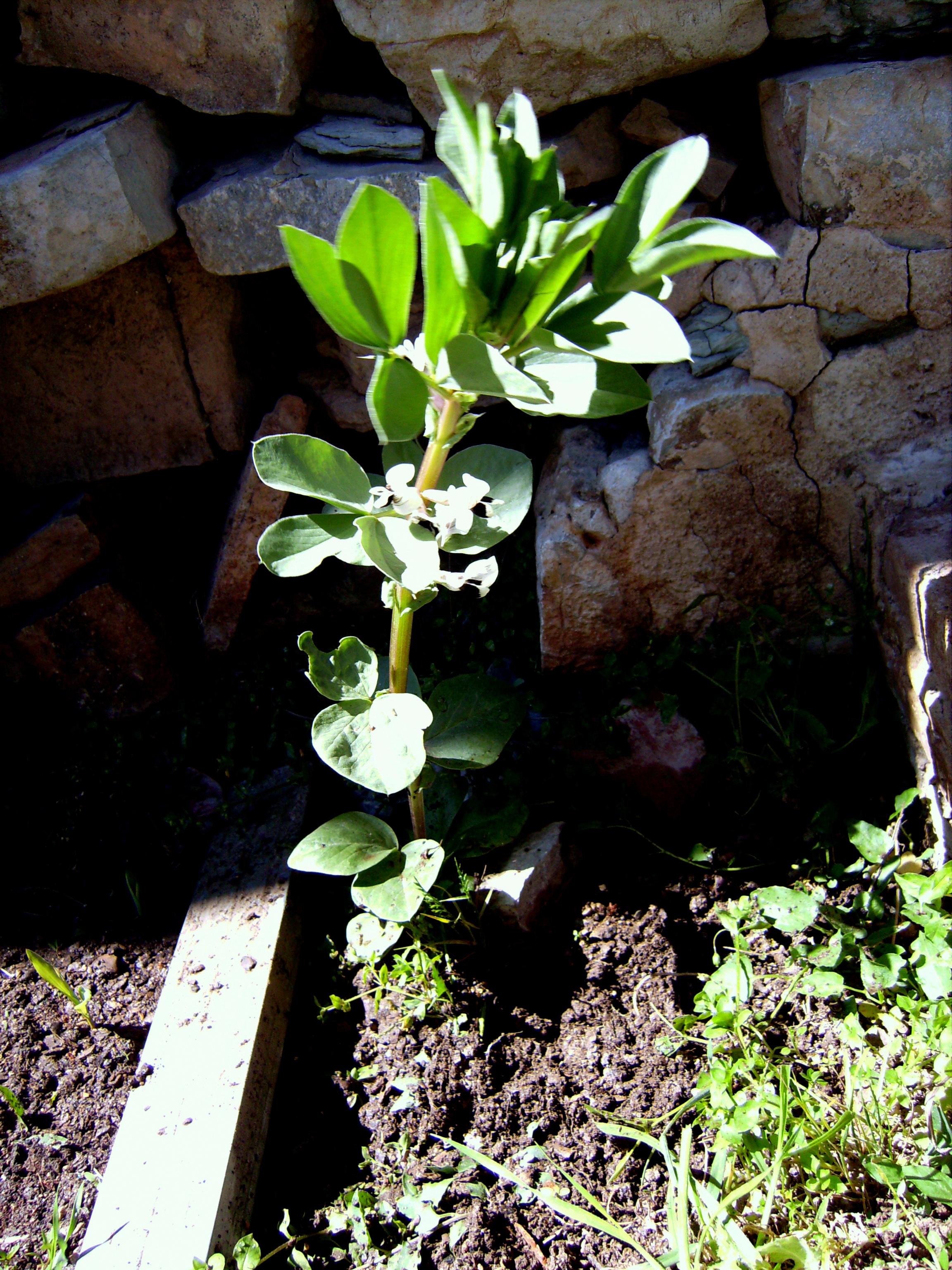 Bean,Vicia faba flowering, Castelltallat, Catalonia